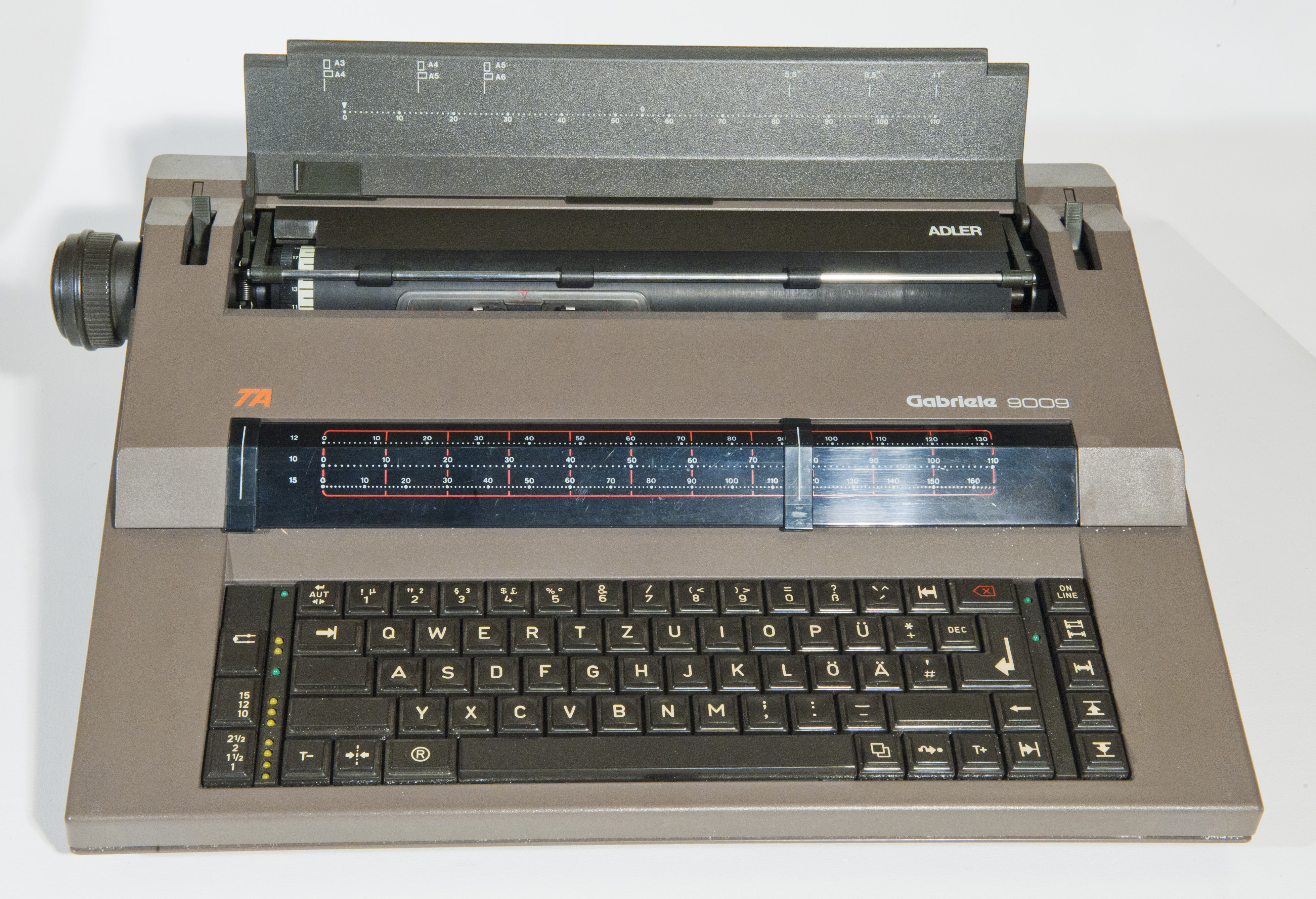 Typewriter by Triumph-Adler (Gabriele 9009) ca. 1985